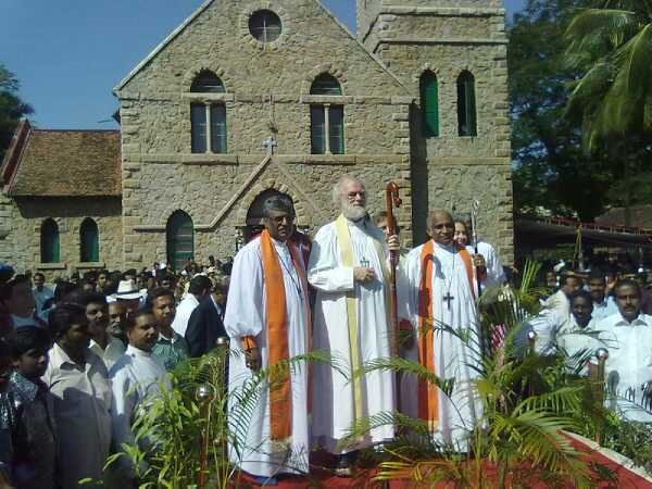 The Archbishop of Canterbury, Rowan Williams, visits the Mateer Memorial Church on October 24, 2010.